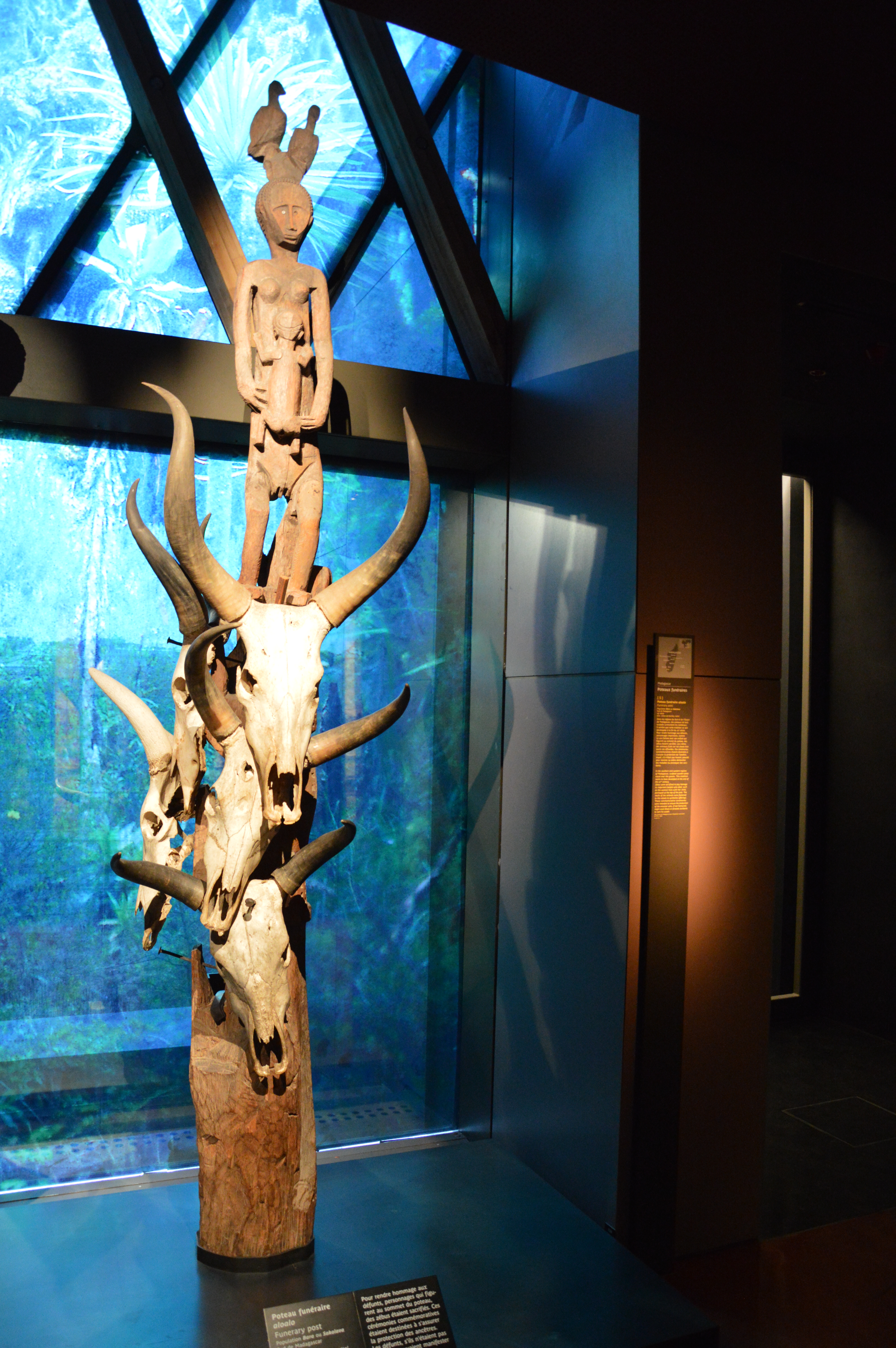 Funerary post.